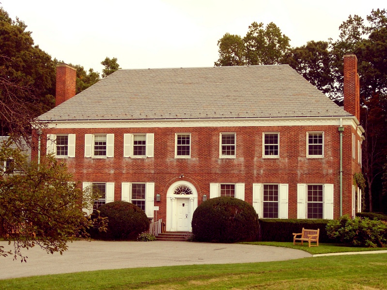 Old Orchard, the former home of Brigadier General Theodore Roosevelt Jr., on the site of the Sagamore Hill National Historical Site, now the museum on the grounds of the site.